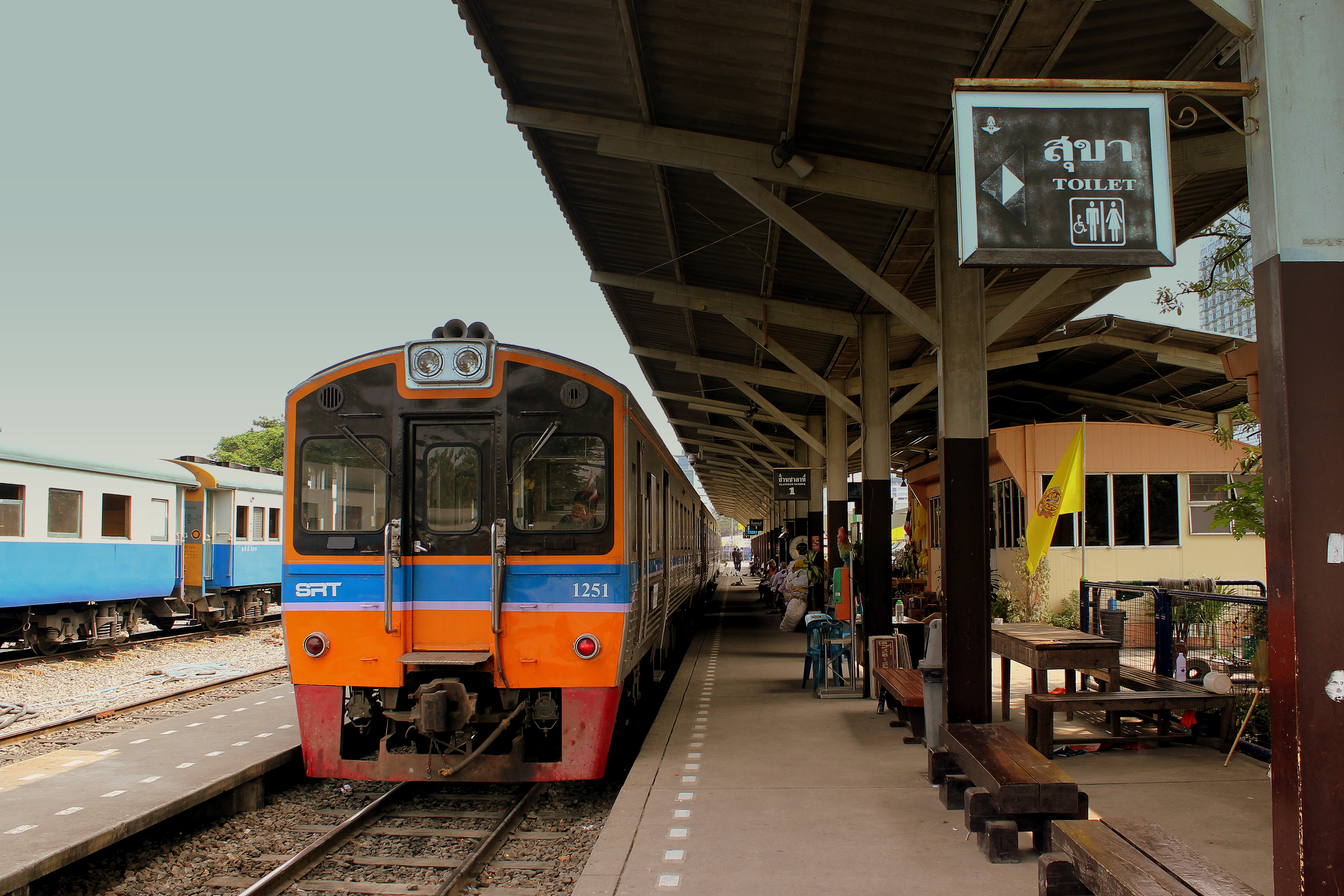 THAI RAILWAYS DMU AT THONBURI STATION BANGKOK THAILAND JAN 2013